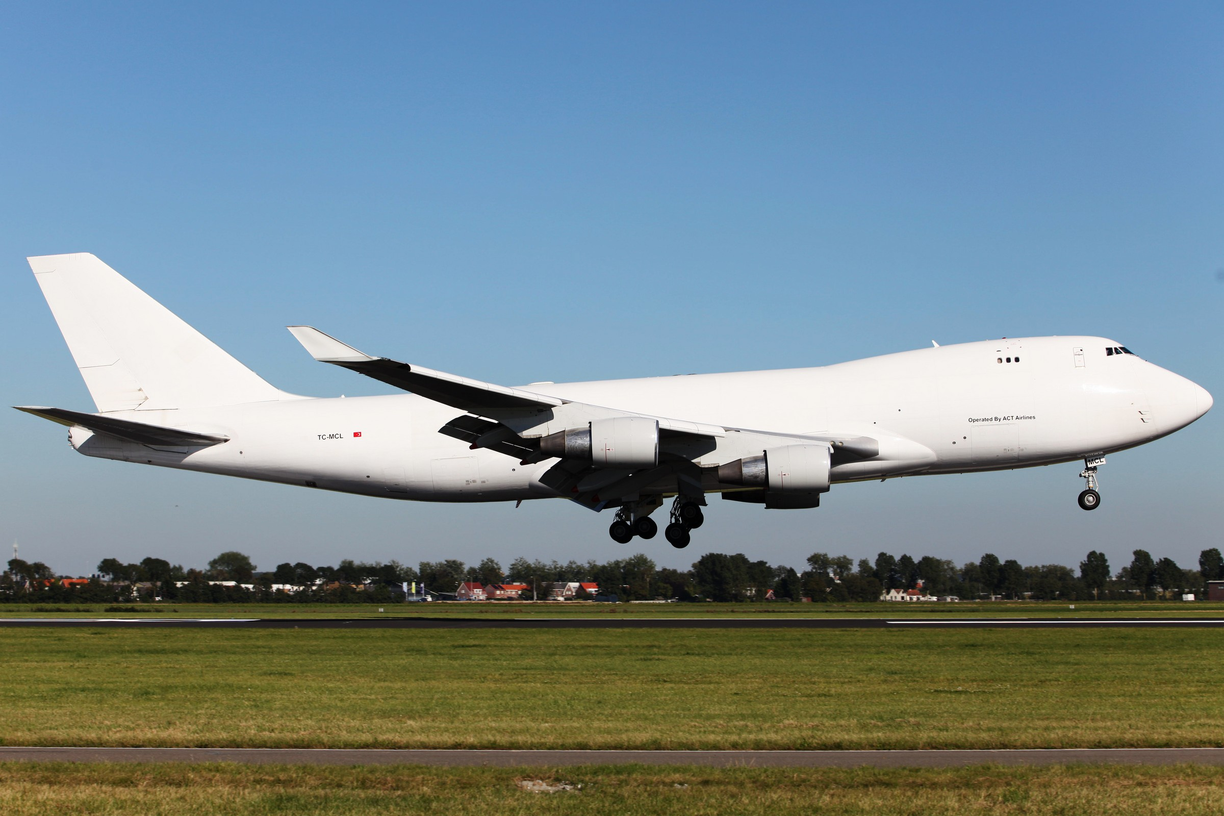 ACT Airlines Boeing 747-412F (TC-MCL). This aircraft crashed on 16 January 2017 as Turkish Airlines Flight 6491.